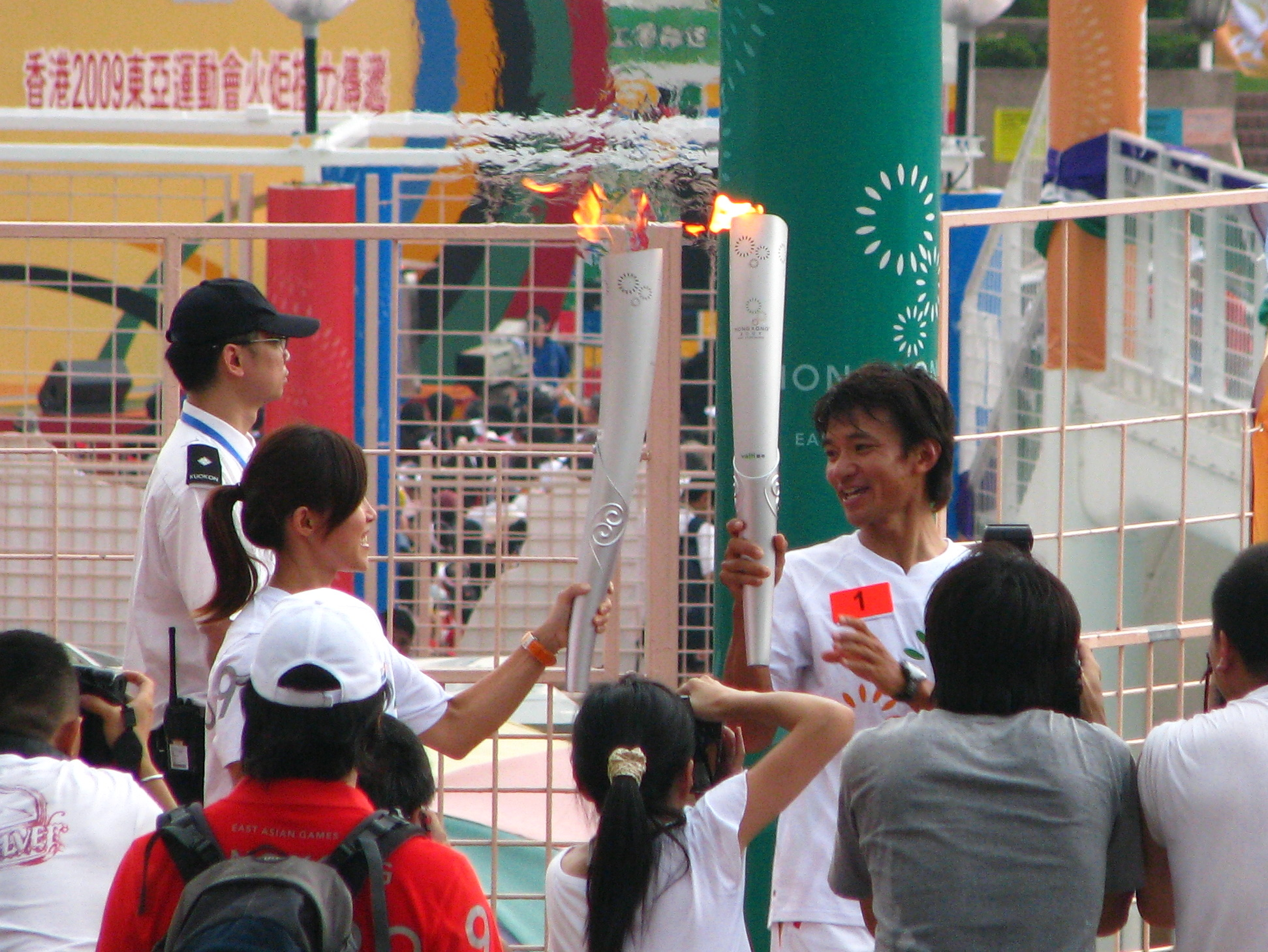 Hong Kong 2009 East Asian Games Torch Relay in Hong Kong.